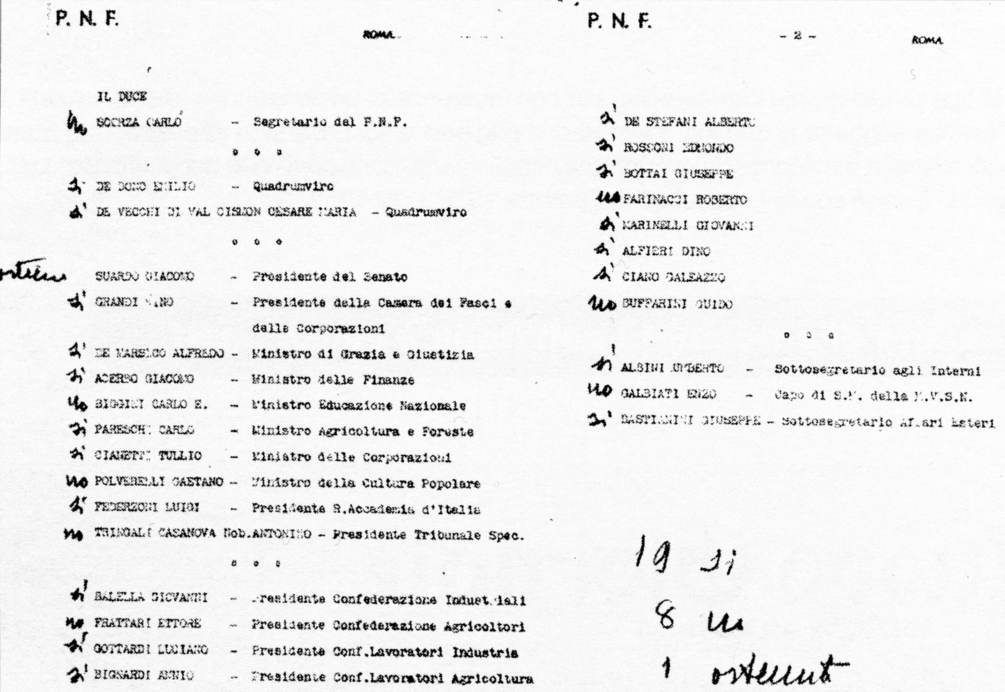 Scanned from an original copy of National Fascist Party. It summarizes the outcome of a vote of Grand Council of Fascism: 19 votes in favor (Dino Grandi, Giuseppe Bottai, Luigi Federzoni, Galeazzo Ciano, Cesare Maria De Vecchi, Umberto Albini, Alfredo De Marsico, Giacomo Acerbo, Dino Alfieri, Giovanni Marinelli, Carluccio Pareschi, Emilio De Bono, Edmondo Rossoni, Giuseppe Bastianini, Annio Bignardi, Alberto De Stefani, Luciano Gottardi, Giovanni Balella and Tullio Cianetti 8 votes against (Carlo Scorza, Roberto Farinacci, Guido Buffarini-Guidi, Enzo Galbiati, Carlo Alberto Biggini, Gaetano Polverelli, Antonino Tringali Casanova, Ettore Frattari) one abstention (Giacomo Suardo)